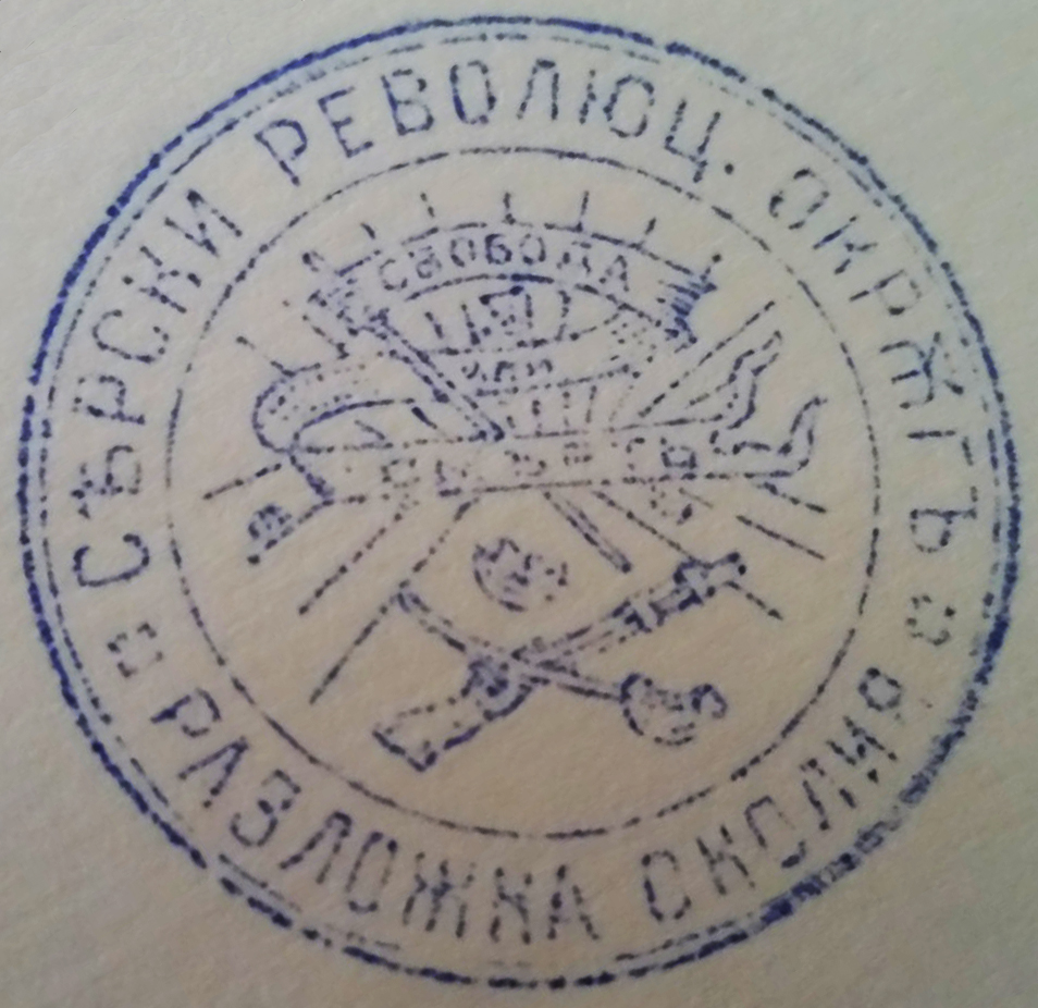 Serski revolutionary region seal of IMARO